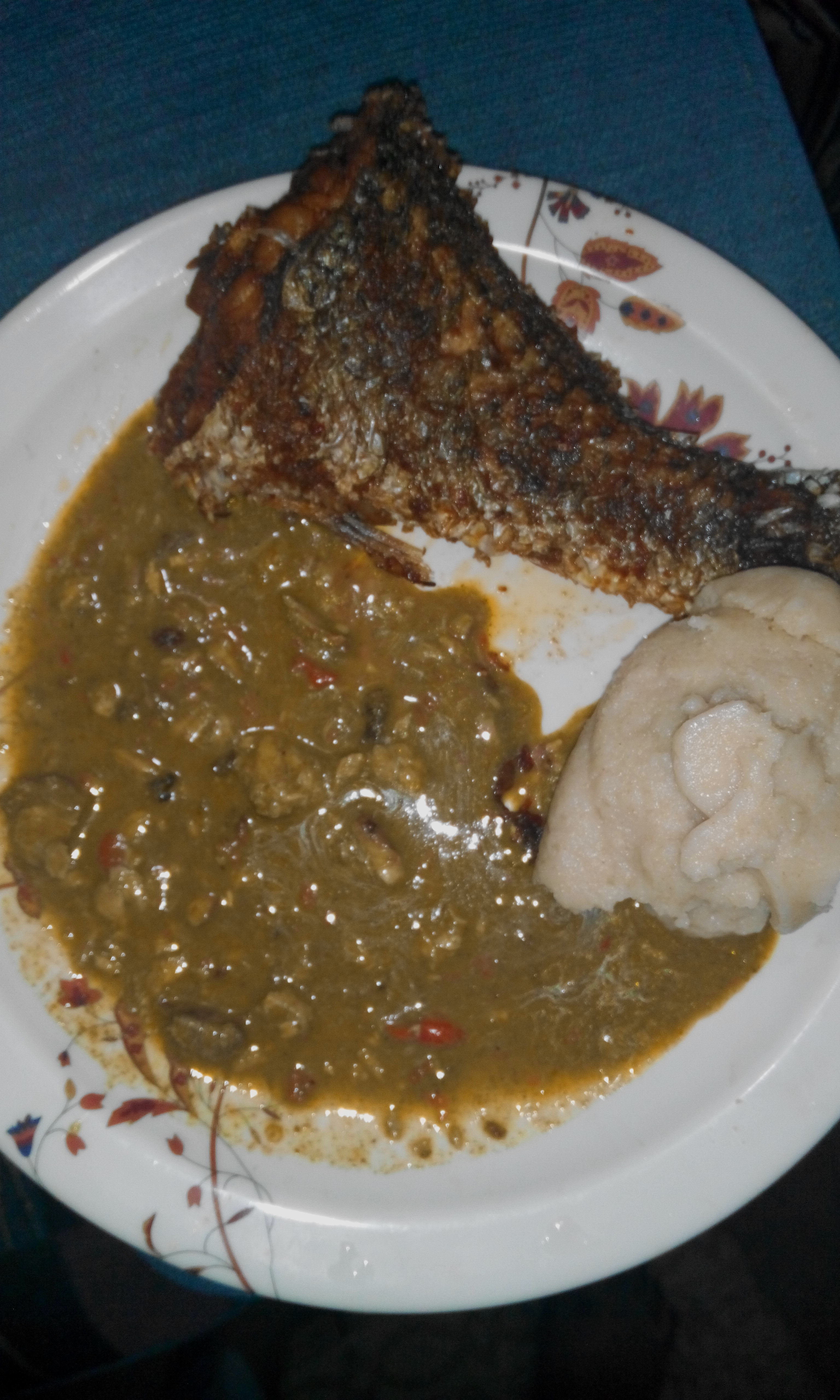 Popular northern Nigeria dish but usually served with dried fish or boiled meat This is an image of food from Nigeria